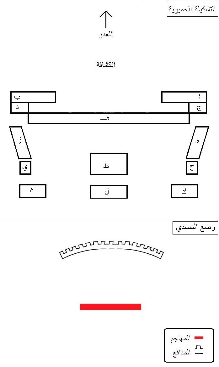 a pre-Islamic Arabian battle formation, used by ancient Yemenis. i made this version after a a 13th century manuscript by Fakhr-i Mudabbir.